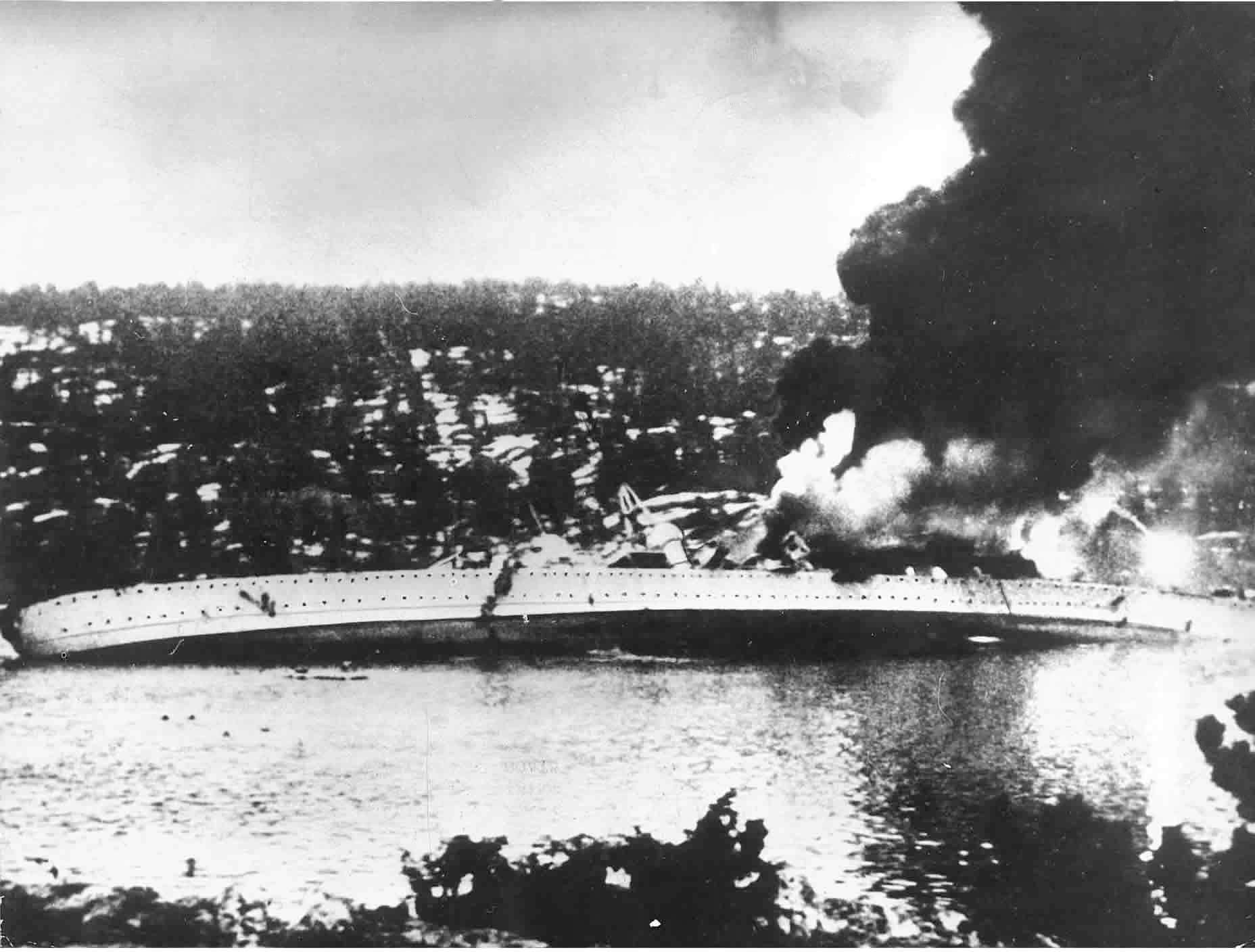 The German cruiser Blücher listing heavily to port after being hit by cannon fire and torpedoes from the Norwegian coastal fortress Oscarsborg. She sank a short time later.